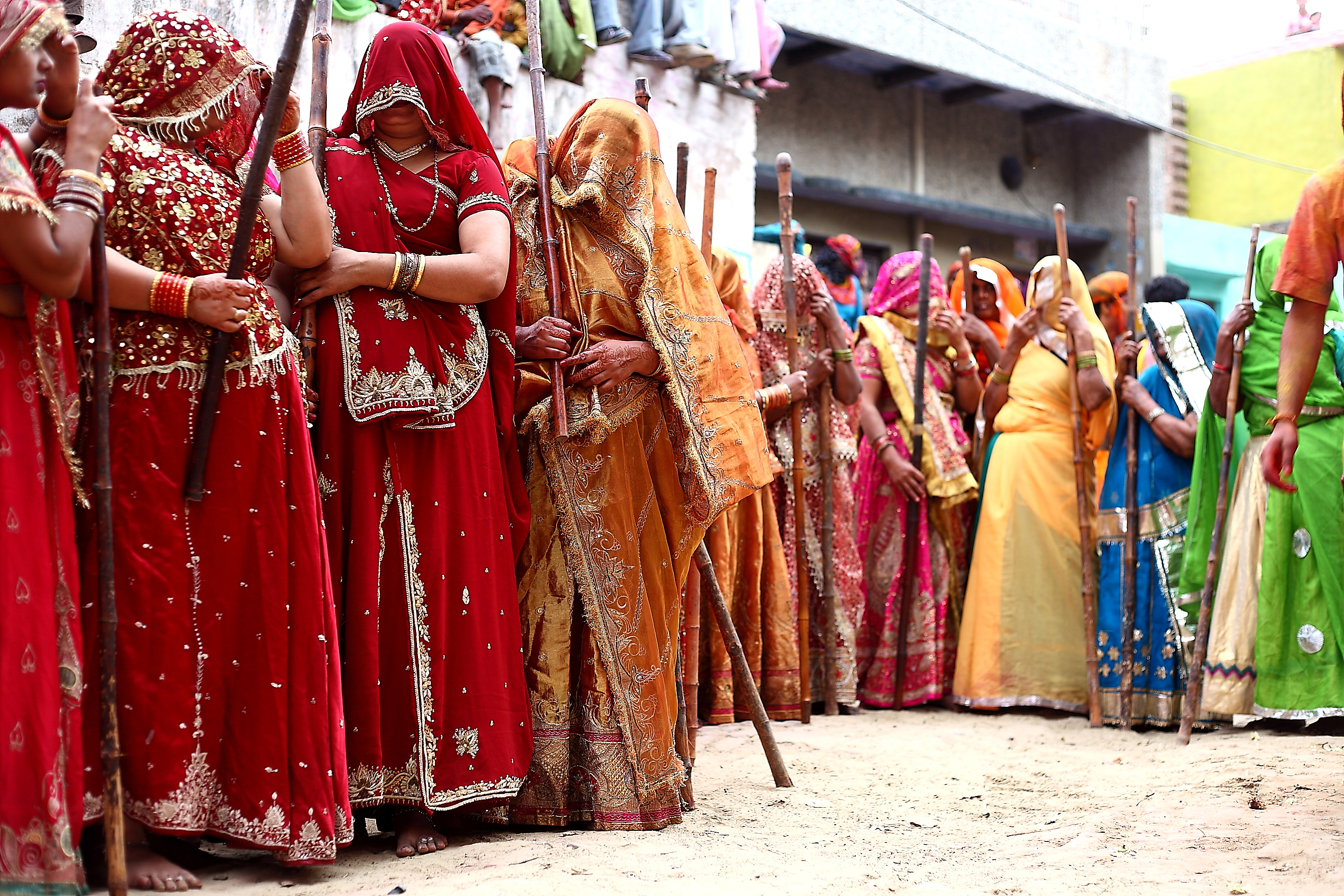 Lathmar Women waiting for Gopis in the streets of Nandgaon